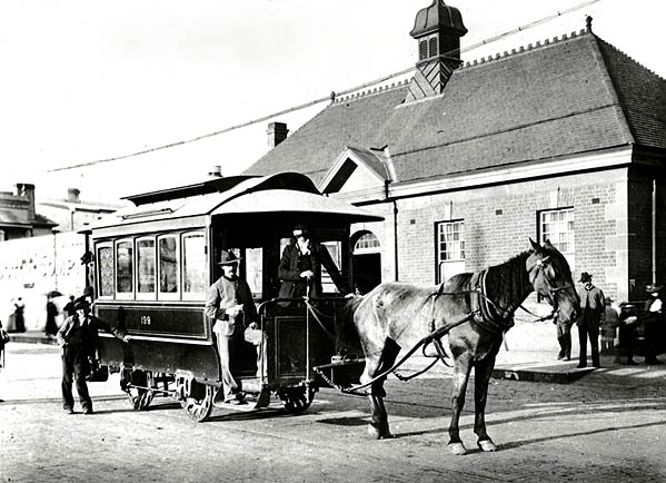 Horsedrawn tram which ran between Newtown Station and St Peters Dated: c. 01/01/1894